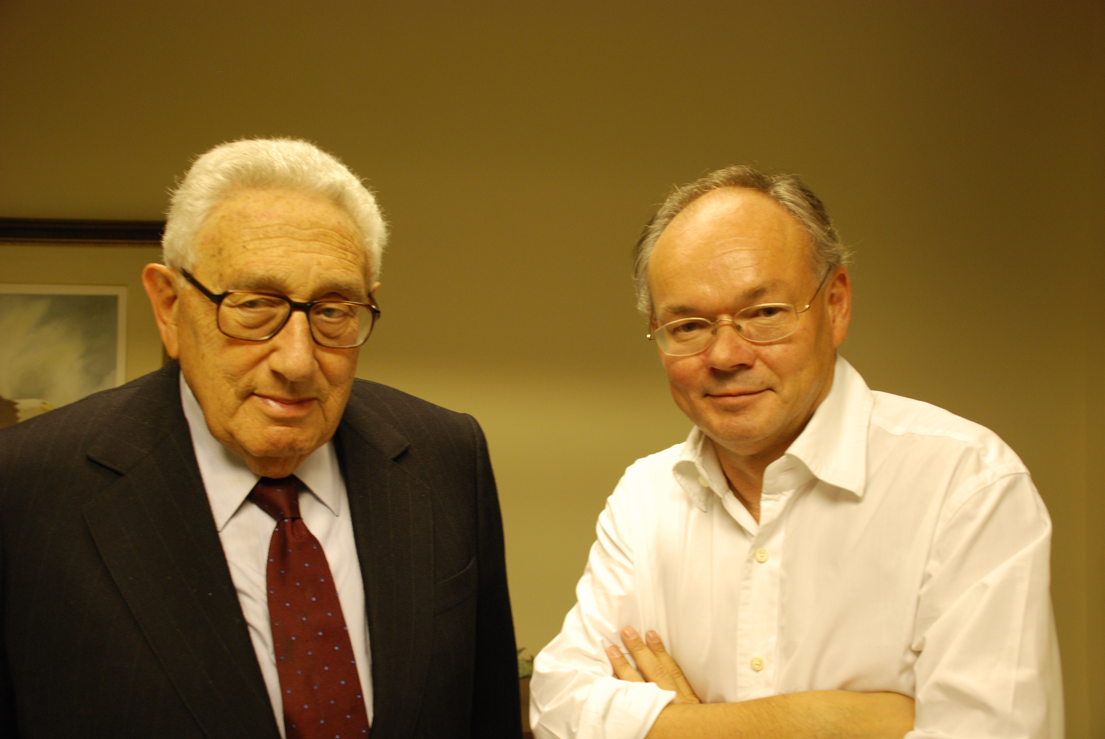 Lutz Hachmeister (on the right) during an interview with Henry Kissinger in New York on 09-10-2007.